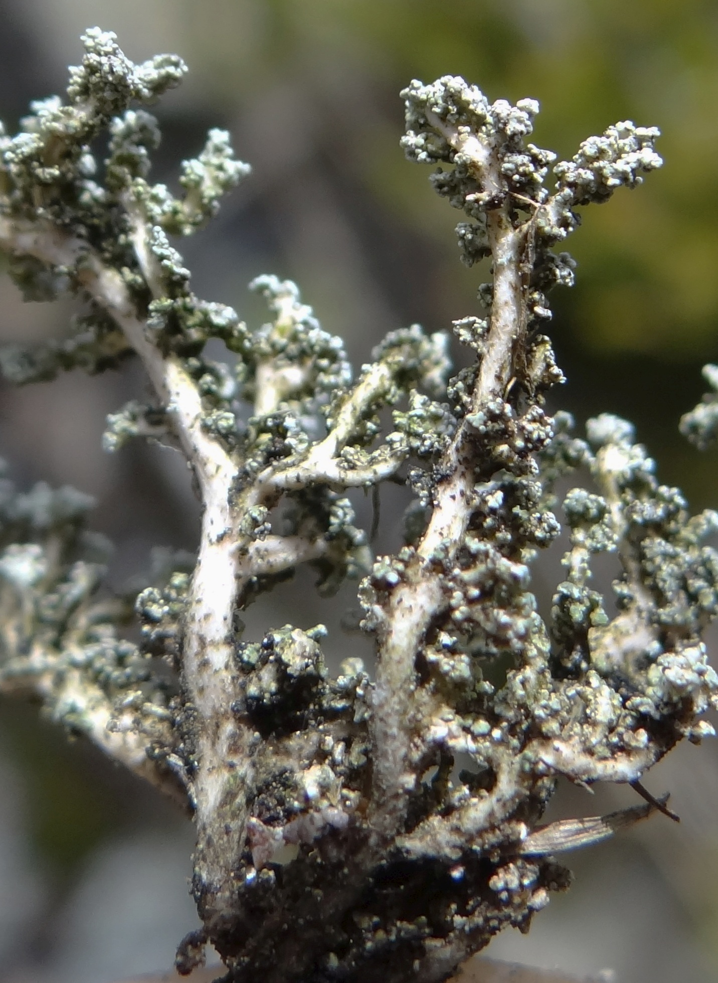 Stereocaulon paschale (location: Poland, Tatra Mountains, Suche Czuby Kondrackie)